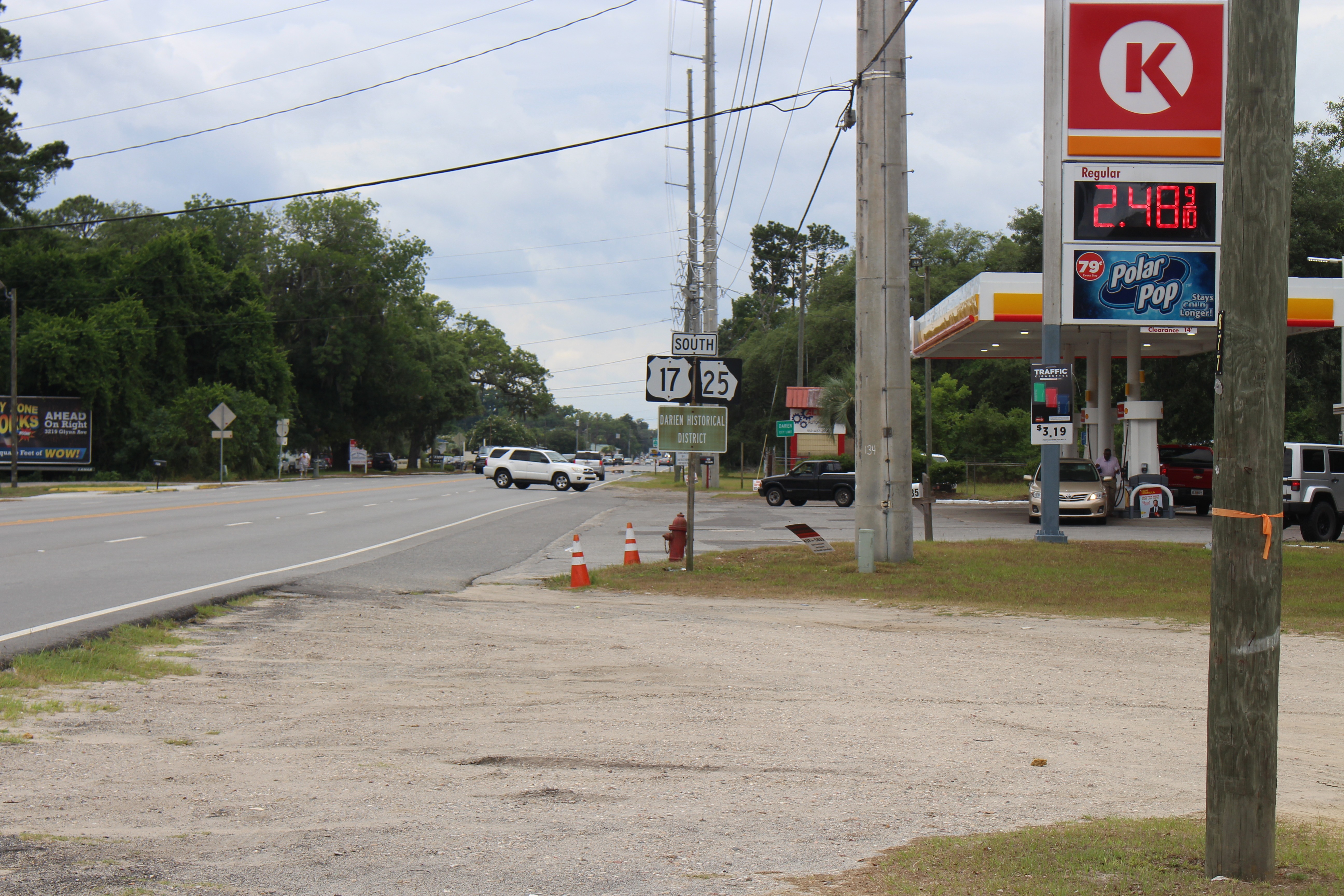 US17 GA25 SB, Darien, McIntosh County, Georgia